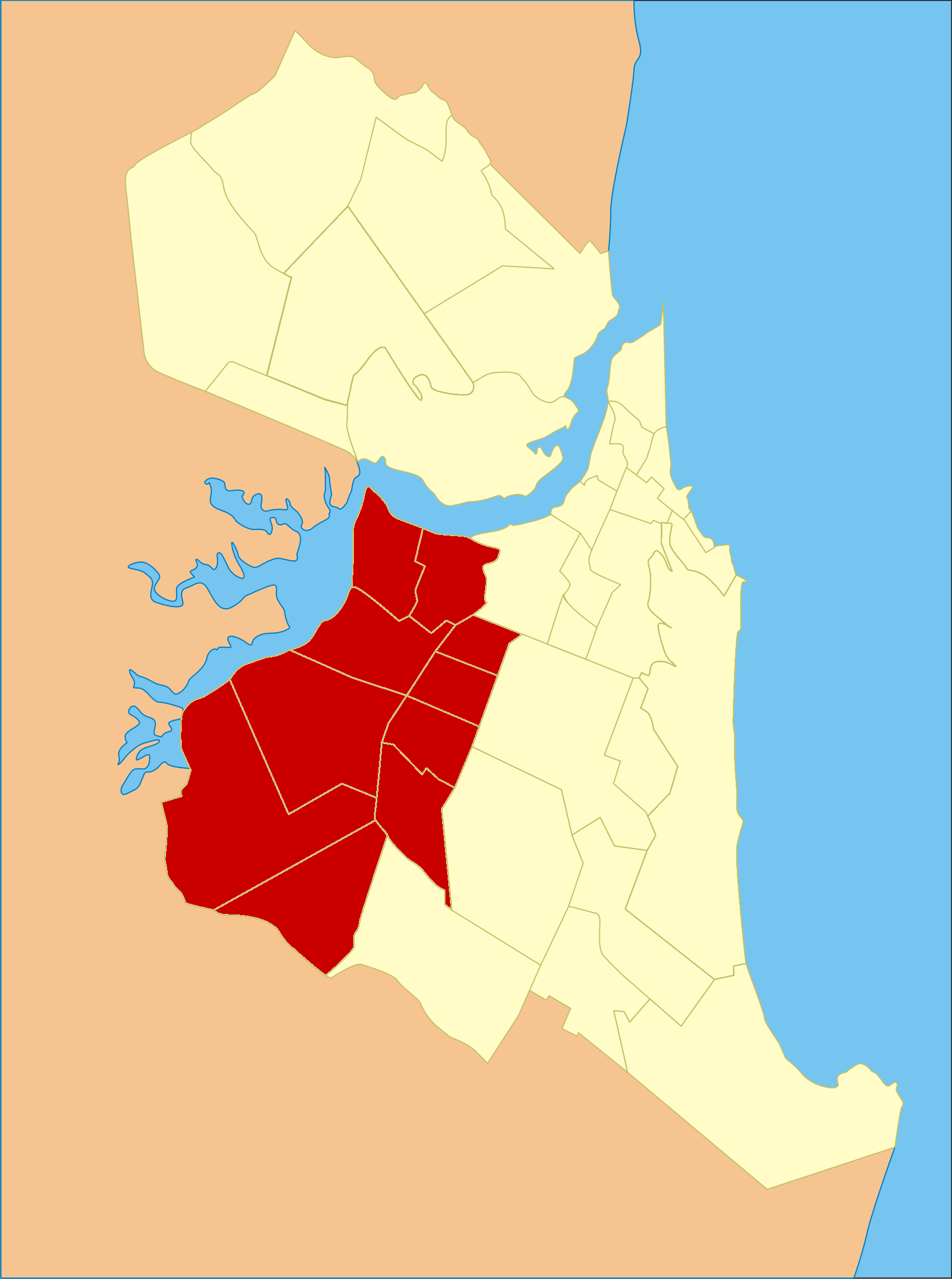 Location map of West Zone in Natal (Rio Grande do Norte), Brasil.